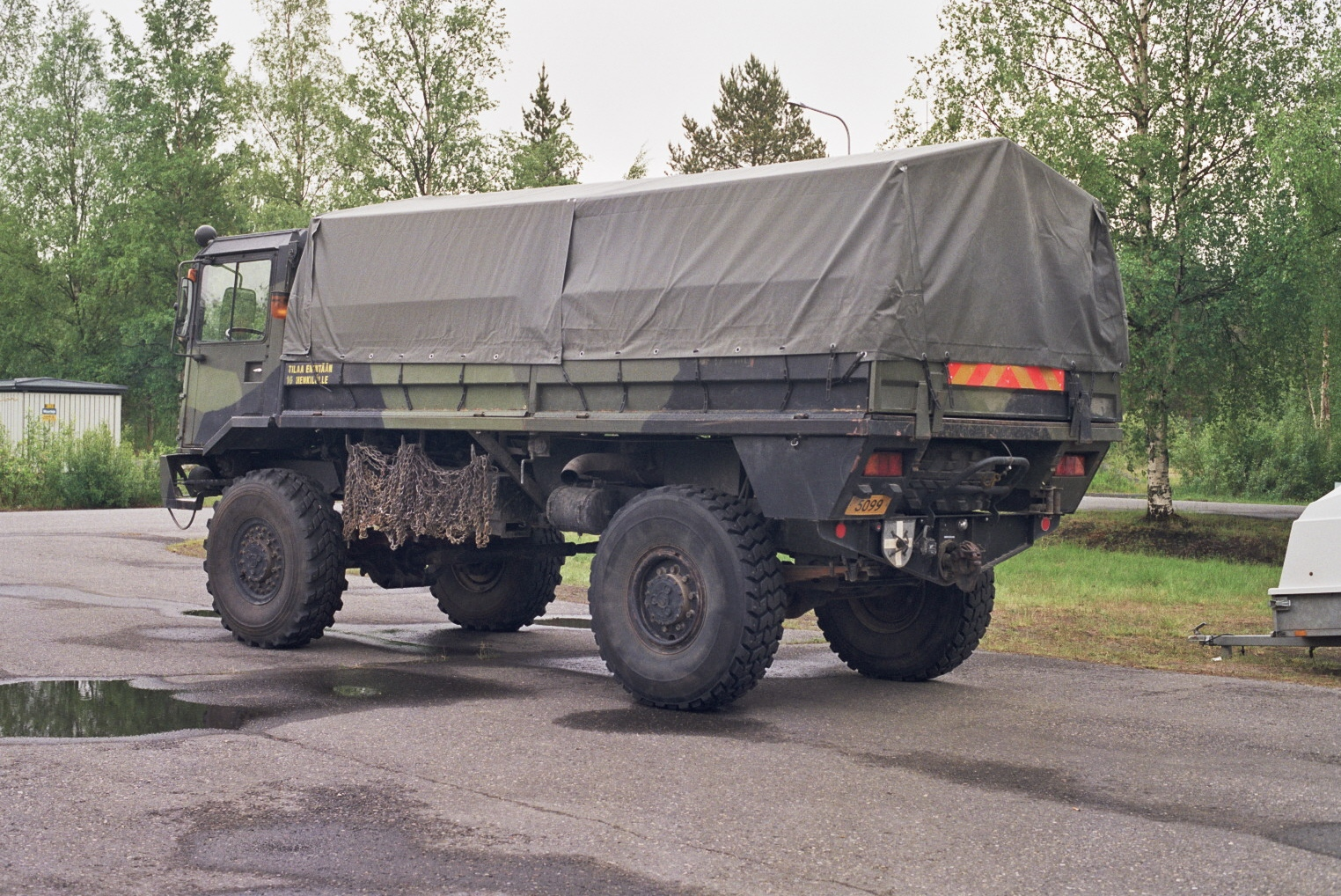 A Finnish Sisu SA-150 military truck (nicknamed "Masi" in Finland) in Hiukkavaara, Oulu, Finland.